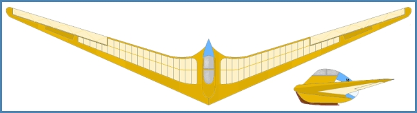 Horten XVI Flying Wing